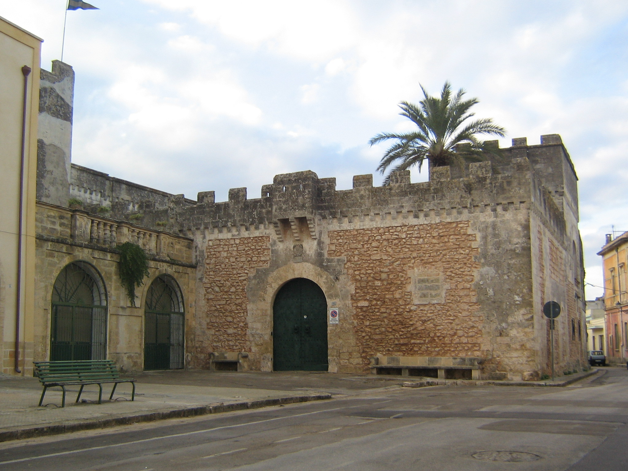 The castle of Depressa, a locality within the commune of Tricase.